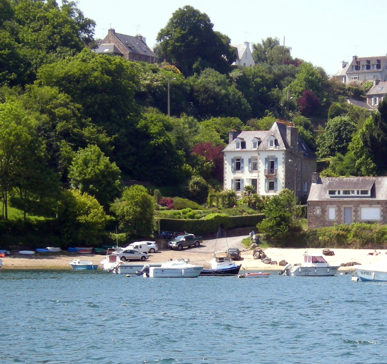 Georges Brassens house in Lézardrieux on Trieux river